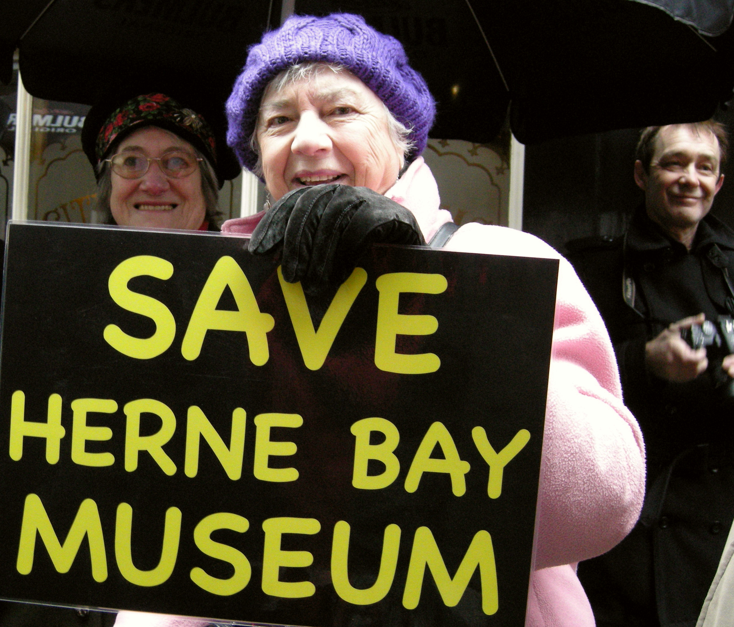 A flash mob, or 30-minute crowd-gathering, created as a Media event outside the Roman Museum in narrow Butchery Lane, Canterbury, Kent by Canterbury Archaeological Trust (CAT) at midday on 13 February 2010. The event was to raise Media awareness that Canterbury and Herne Bay museums were threatened with closure by the City of Canterbury budget 2010−2011. All those present were aware that they were there to be photographed. Alison Cook spoke publicly on behalf of Herne Bay Museum at the 21 January Executive Council meeting, at which a preliminary vote was taken to close the museums. Now she displays a Herne Bay Museum placard in Butchery Lane.